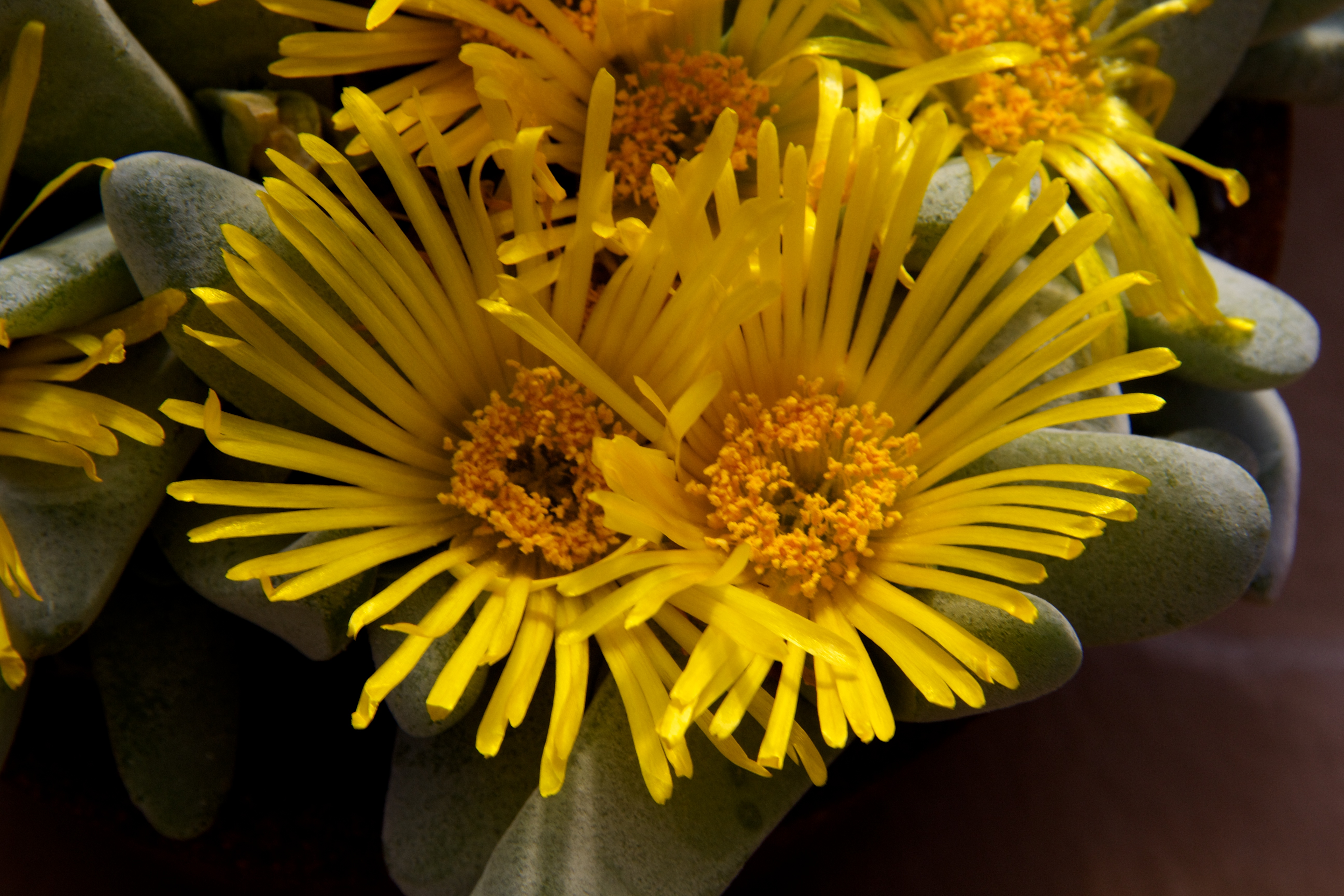 Glottiphyllum oligocarpum. S. Africa. 96348. At Huntington Library, Art Collections and Botanical Gardens.